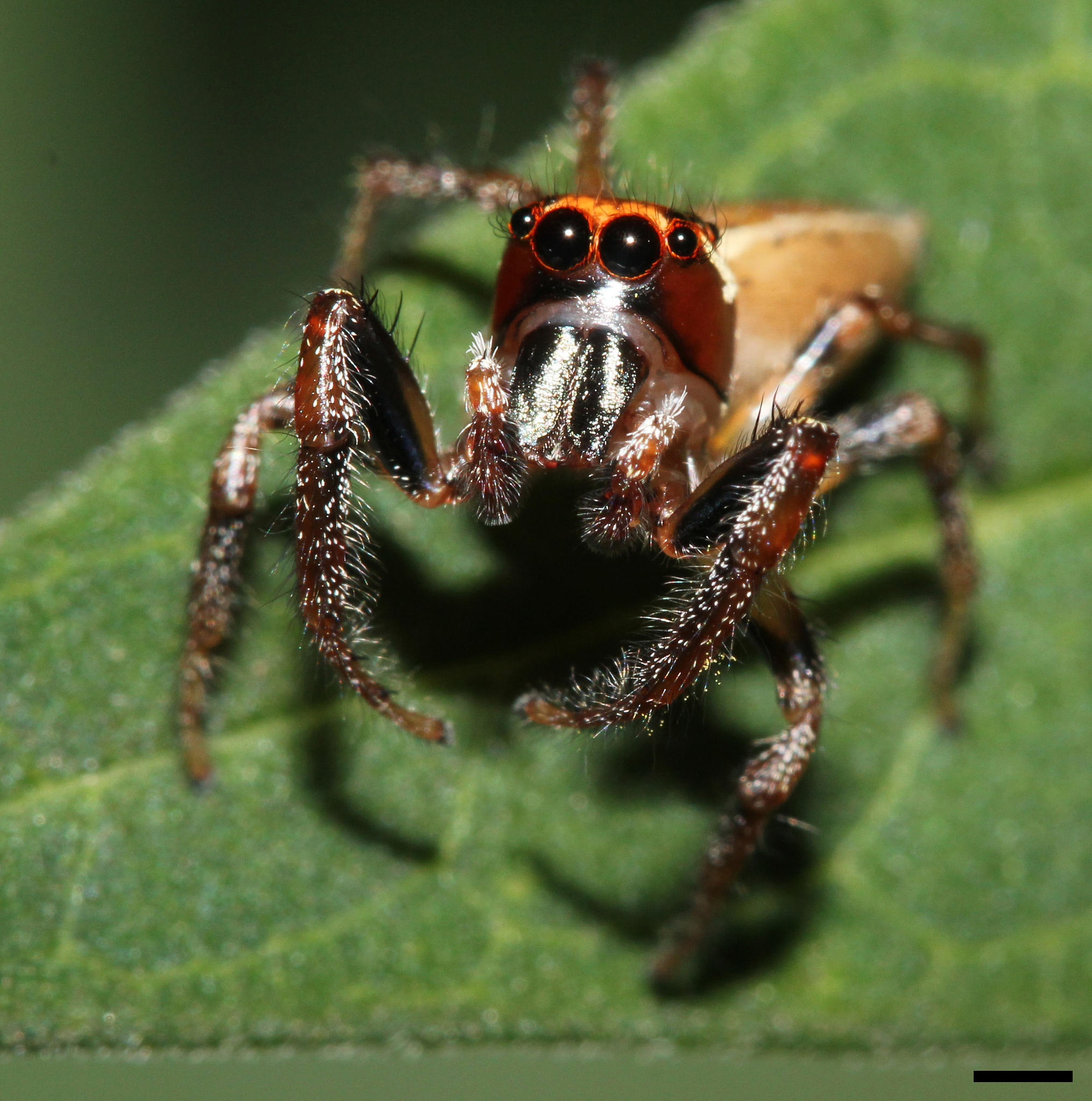 Adult male Thiodina sylvana jumping spider on the prowl in southern Greenville County, SC, USA; Scale bar = 1.0 mm.